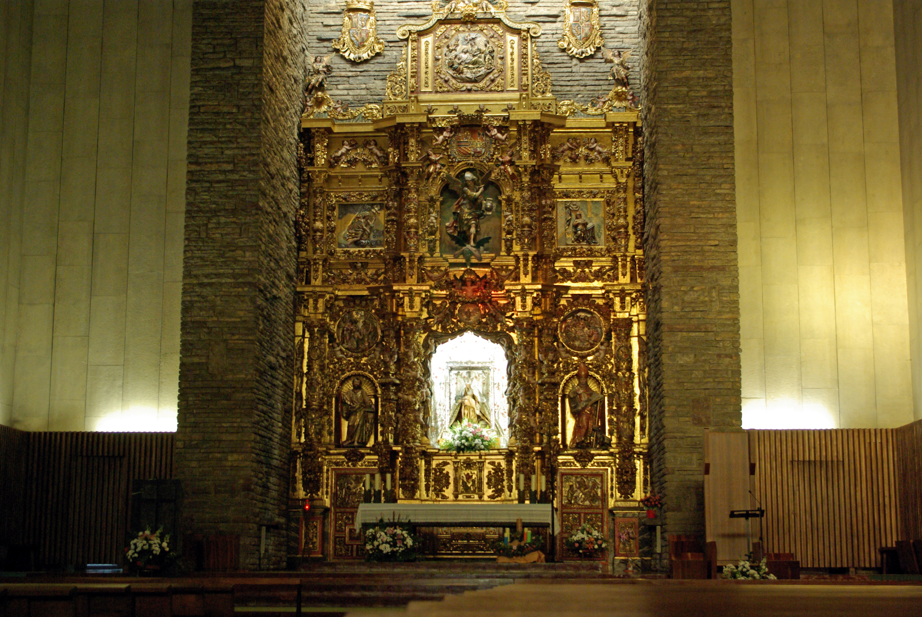 Sanctuary of La Virgen del Camino altarpiece, Valverde de la Virgen (León, Spain) in the Way of Saint James.